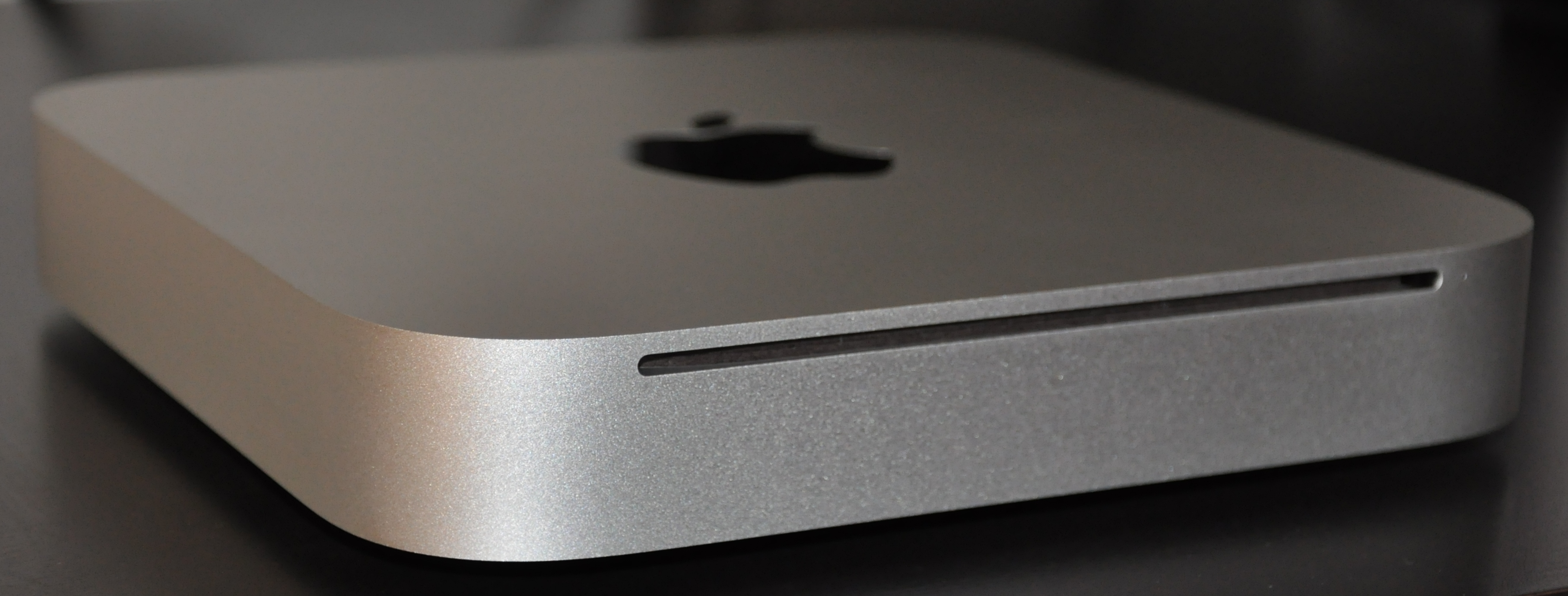 2010 Mac Mini